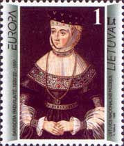 Europa.Famous Women. Date of issue: 27th April 1996 Designer: K. Katkus Paper: coated Printing process: offset Perforation: comb 13 1/4 : 13 Size of a stamp: 30 x 35 mm Size of the Miniature Sheet: 170 x 91 mm Miniature Sheet composition: 10 (5 x 2) stamps Printing run: 500.000 stamps or 50.000 Miniature Sheets Michel catalogue number: 608, Klb.608 1 L. multicoloured. Portrait of Barbora Radvilaite (princess of Lithuanian and Poland, 1520-1551)